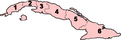 Displays Cuba's provinces before 1976. Made this new map (CubaSubdivisions1.png) from the old map (CubaSubdivisions.png) from the wiki en, by the user and